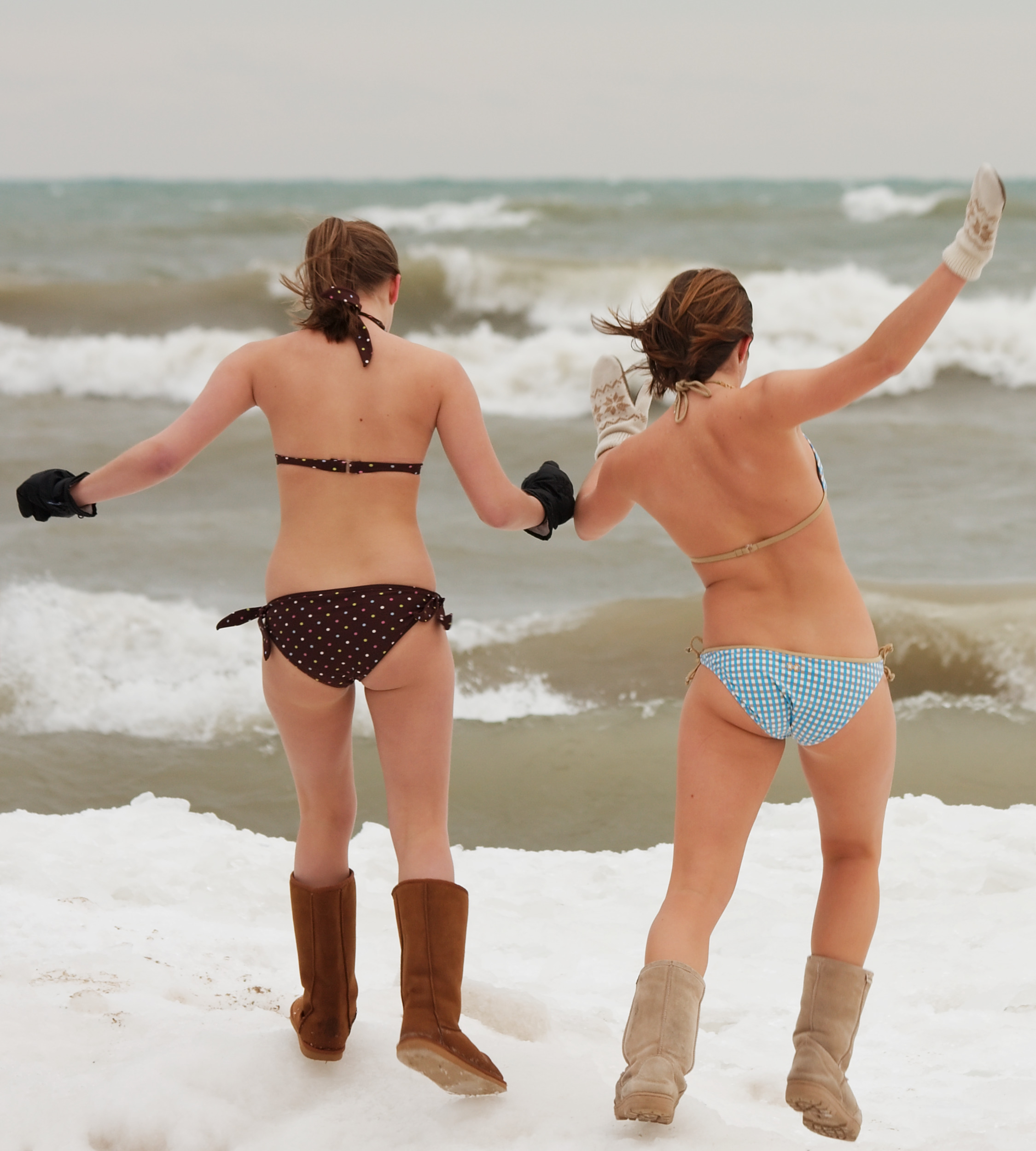 Polar bear plunge, New Year's Day 2009, Bradford Beach, Milwaukee, Wisconsin